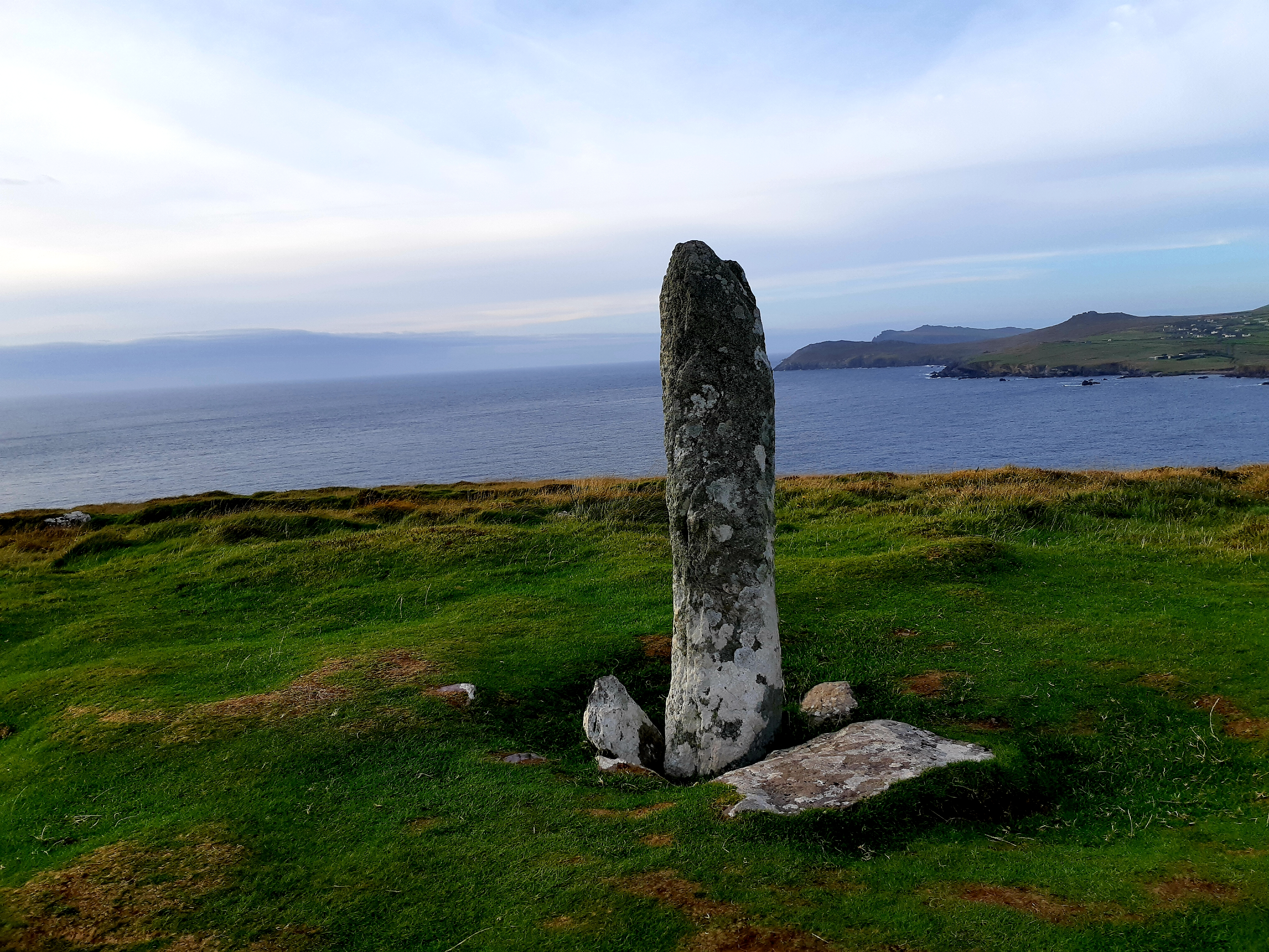 County Kerry, Coumeenoole Stone. Wikidata has entry Q30247274 with data related to this item.